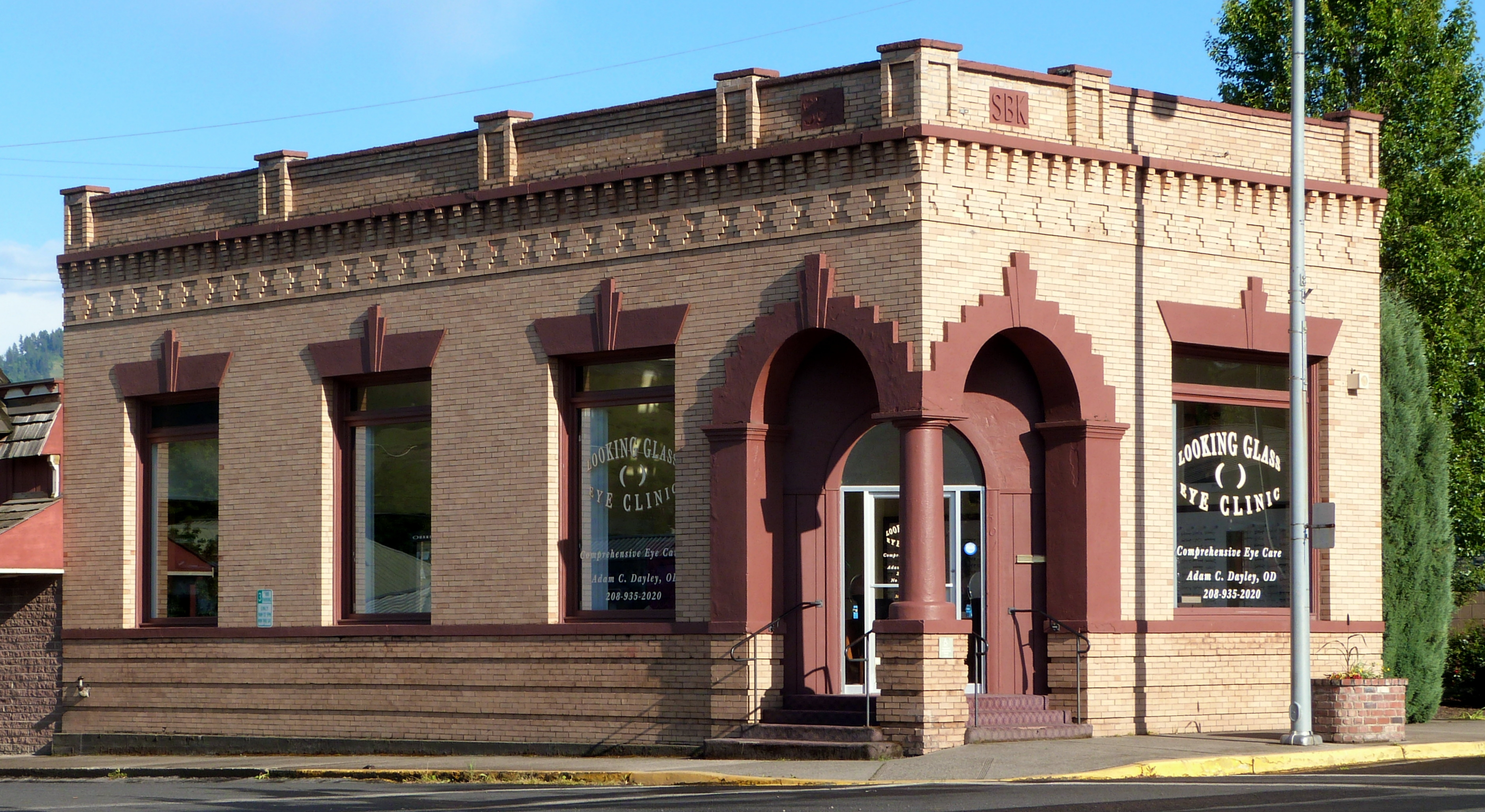 The historic State Bank of Kamiah building (built 1909–1910), located at the intersection of Main and 5th streets in Kamiah, Idaho, United States, is listed on the US National Register of Historic Places.